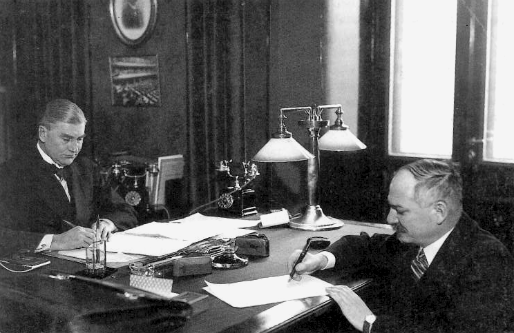 The Finnish–Soviet Non-aggression Pact signed in Helsinki on 21 January 1932. On the left the Finnish foreign minister Aarno Yrjö-Koskinen, and on the right the Ambassador of the Soviet Union in Helsinki Ivan Maisky.